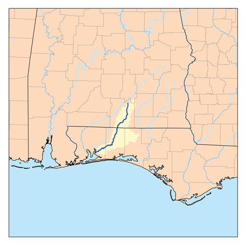 This is a map of the Yellow River watershed. I, Karl Musser, created it based on USGS data.